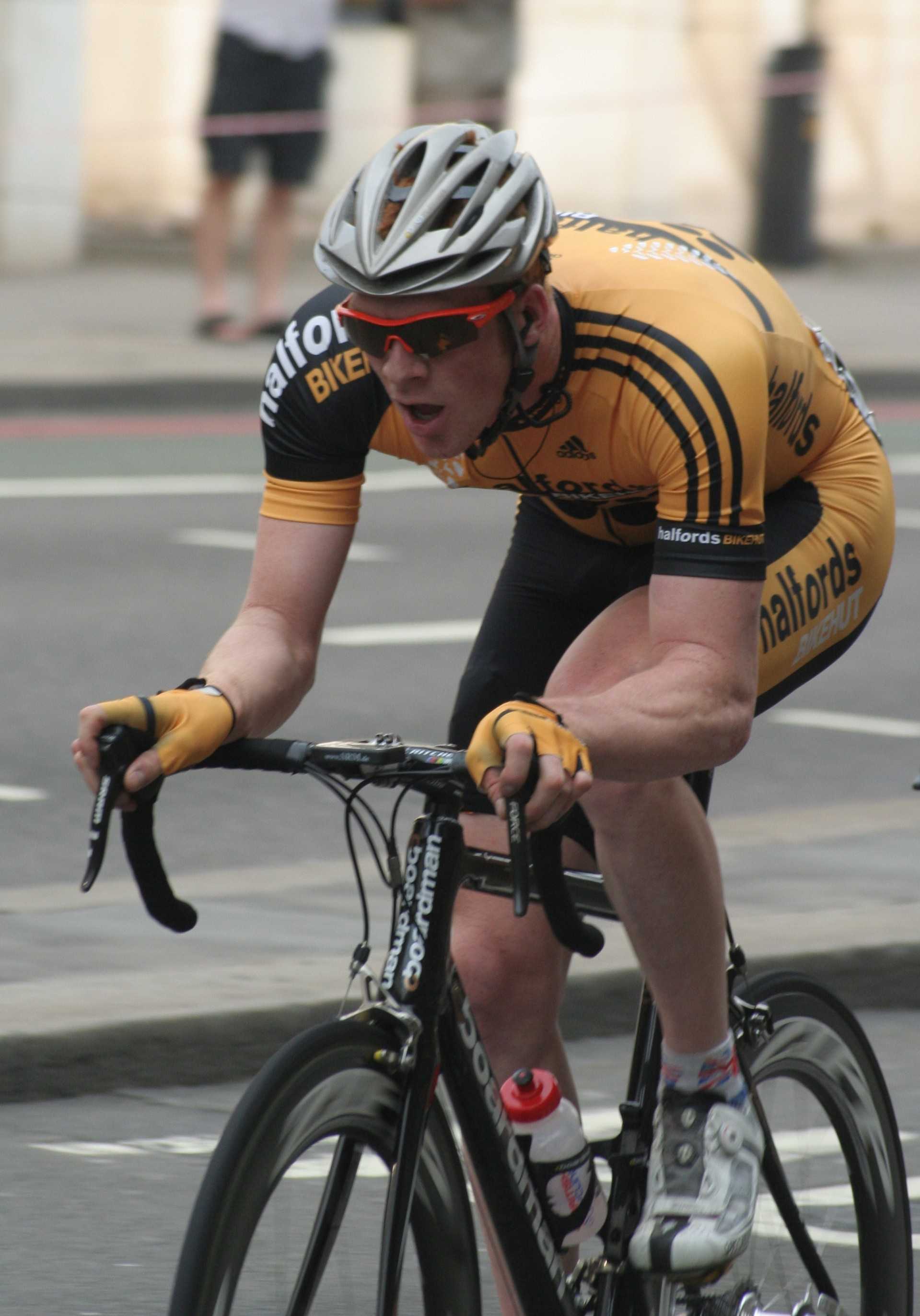 Ed Clancy riding in the 2009 Tour of Britain